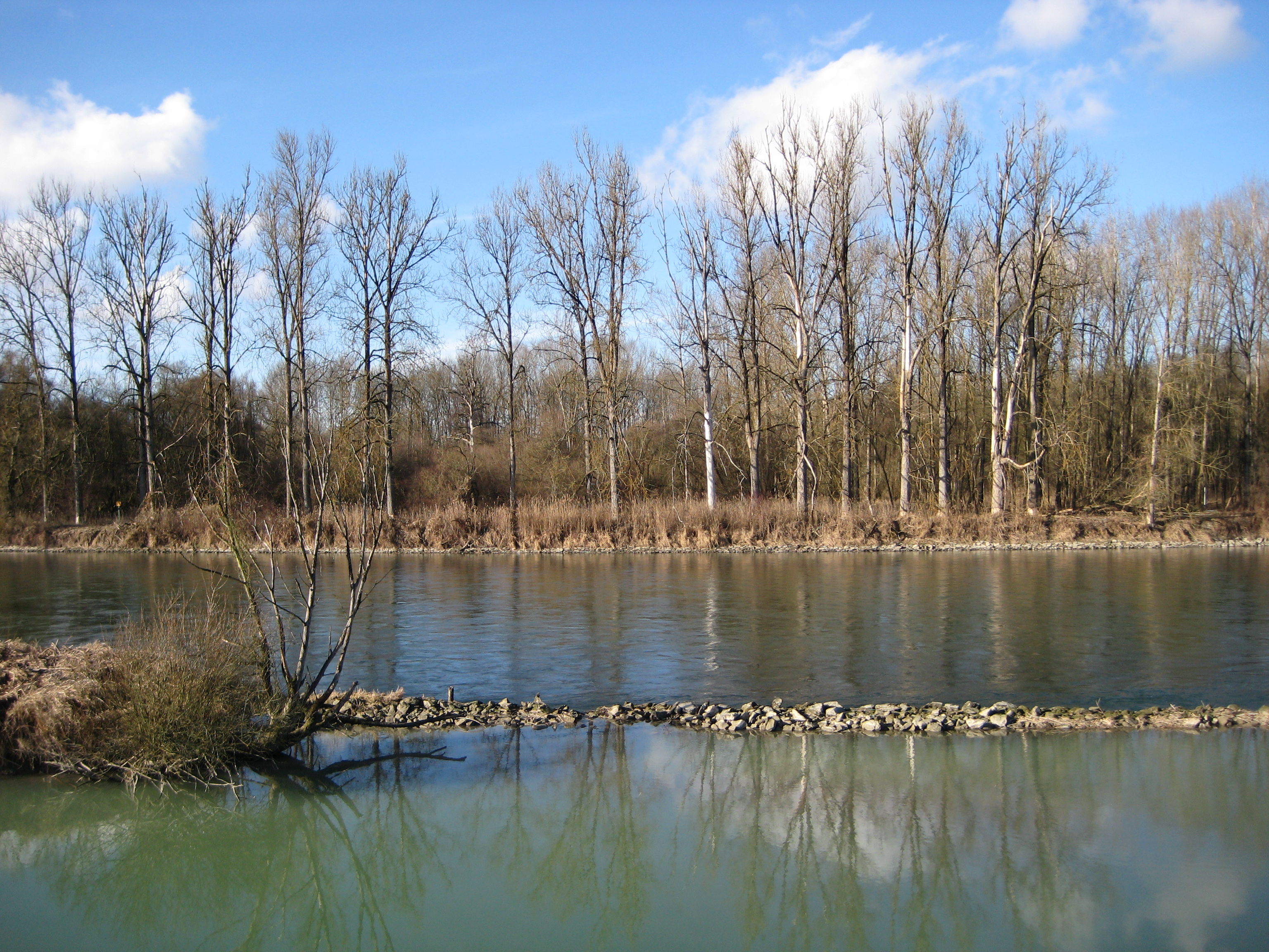 The Isar about 2 km from the confluence with the Danube